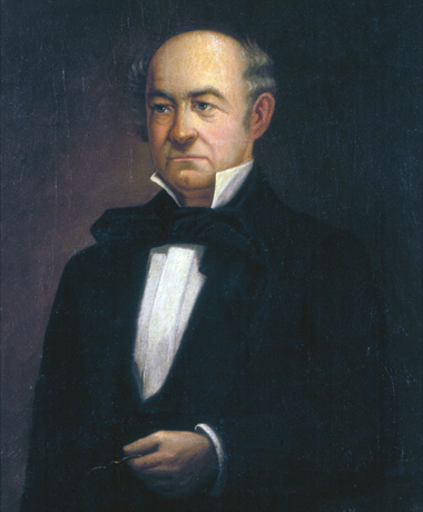 John L. Helm (1802–1867), the 18th and 24th Governor of the U.S. state of Kentucky